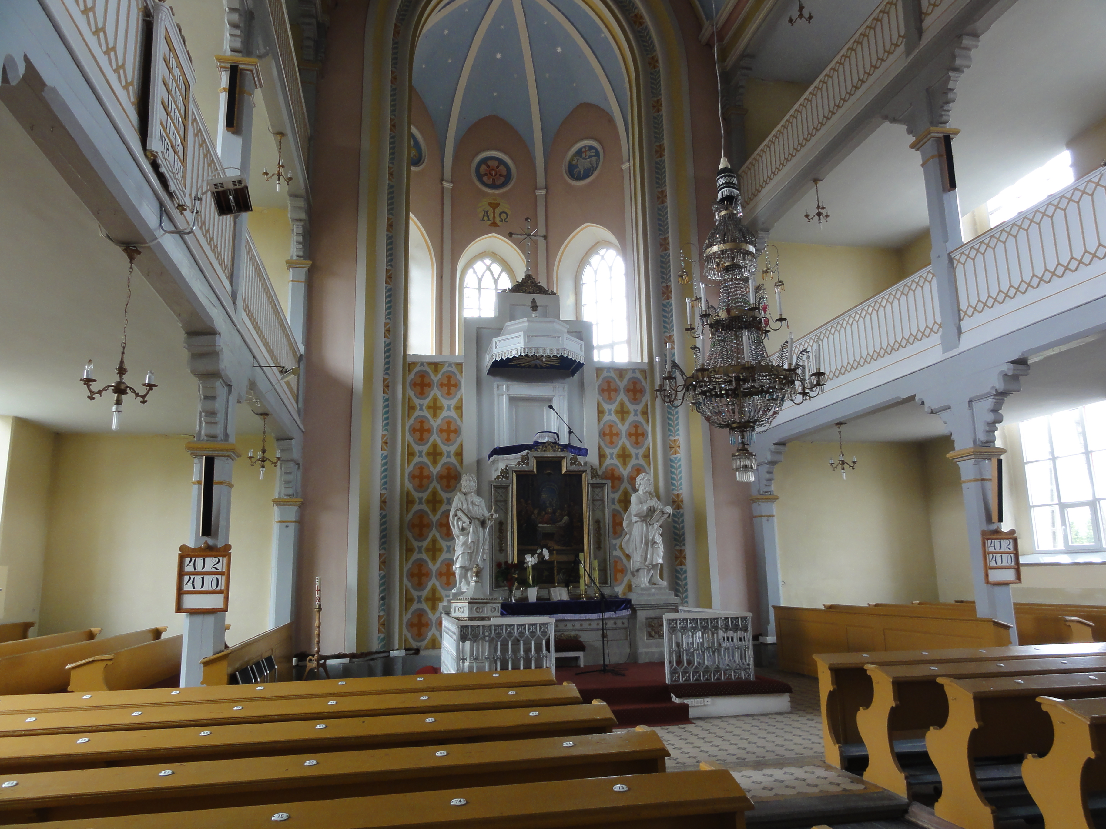 Interior of lutheran church in Międzyrzecze Górne